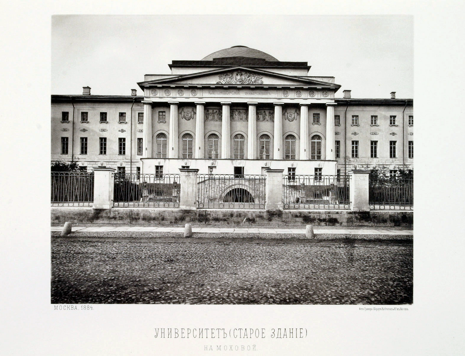 Plate 62: The University, old building, Moscow.